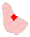 Map of Barbados showing the parish of Saint Joseph.